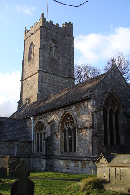 St Tewdric's parish church, Mathern, Monmouthshire, seen from the east